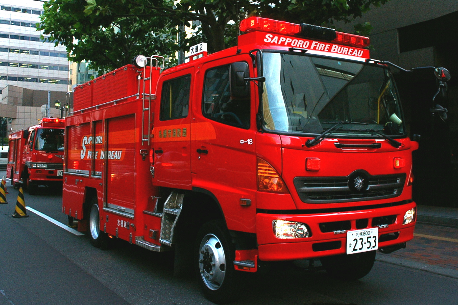 Sapporo Fire bureau odori 2 A-2class TypeII.